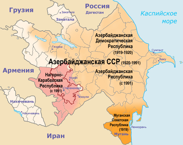 "Philatelic" map of Azerbaijan (from 1919)